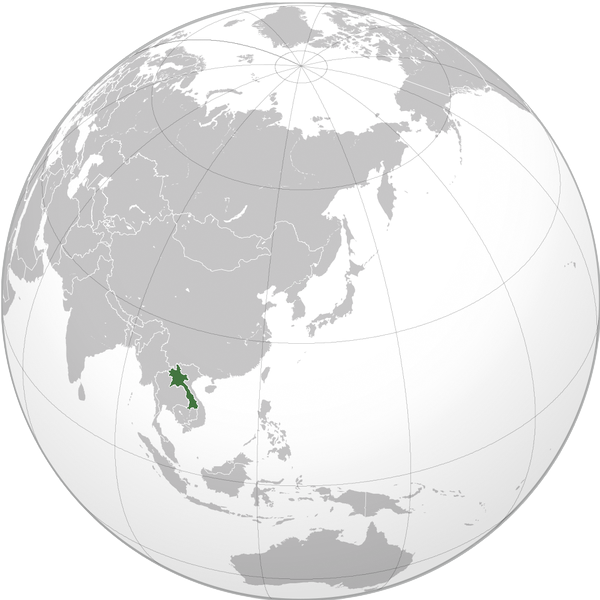 Green: Location of Laos